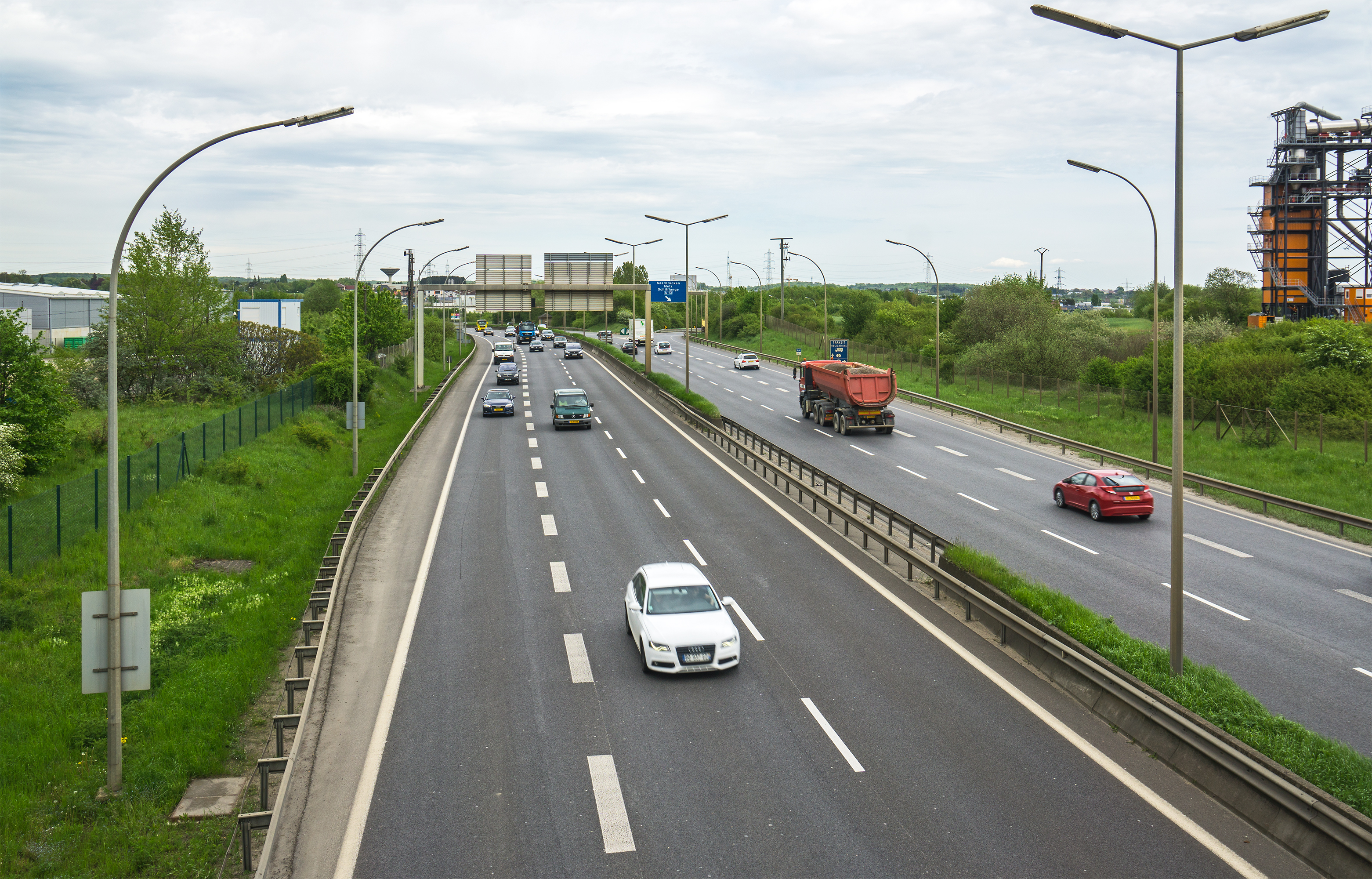 Highway A4 between Foetz and Esch-Alzette